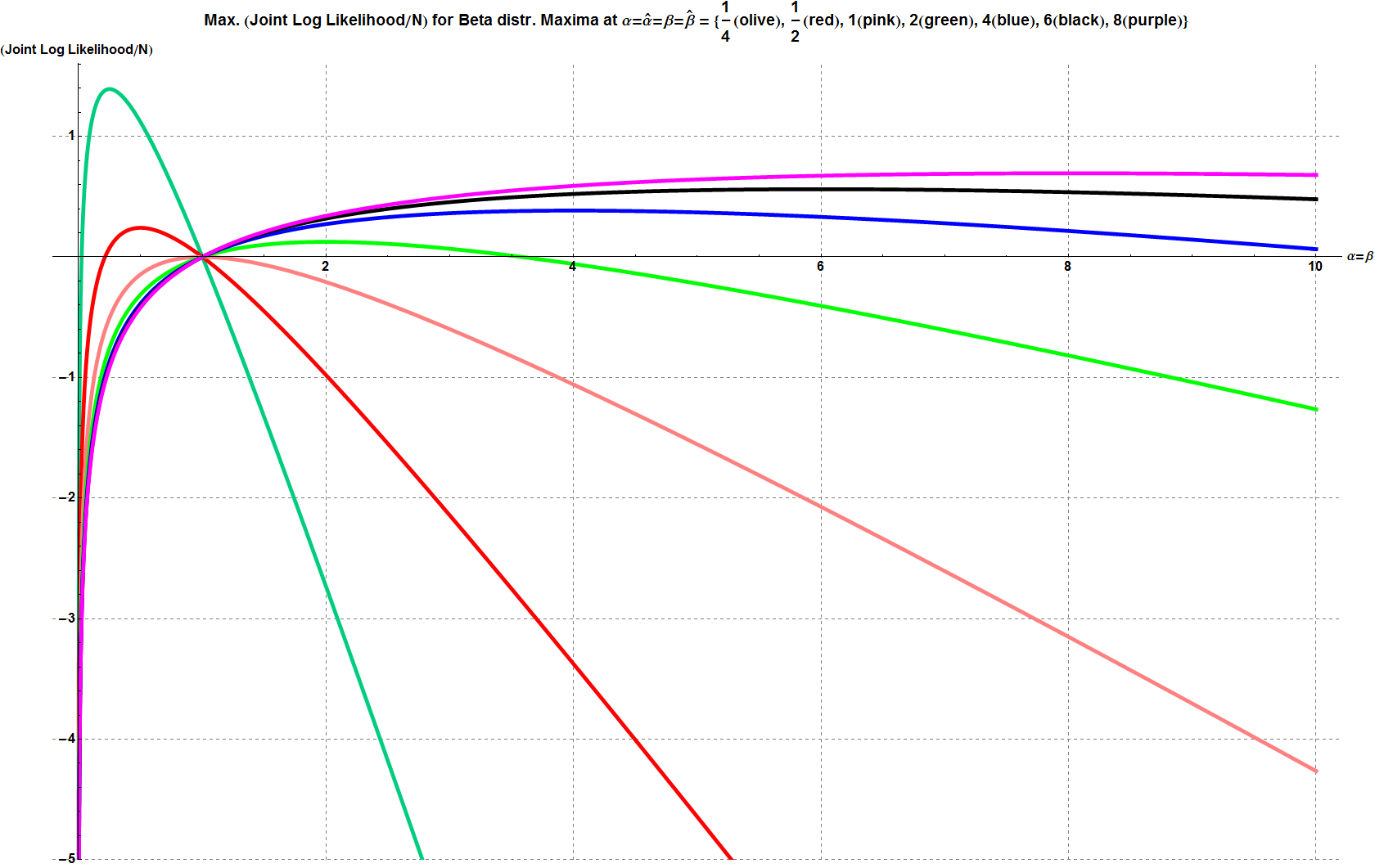 Max (Joint Log Likelihood per N) for Beta distribution Maxima at alpha=beta= 0.25,0.5,1,2,4,6,8 - J. Rodal